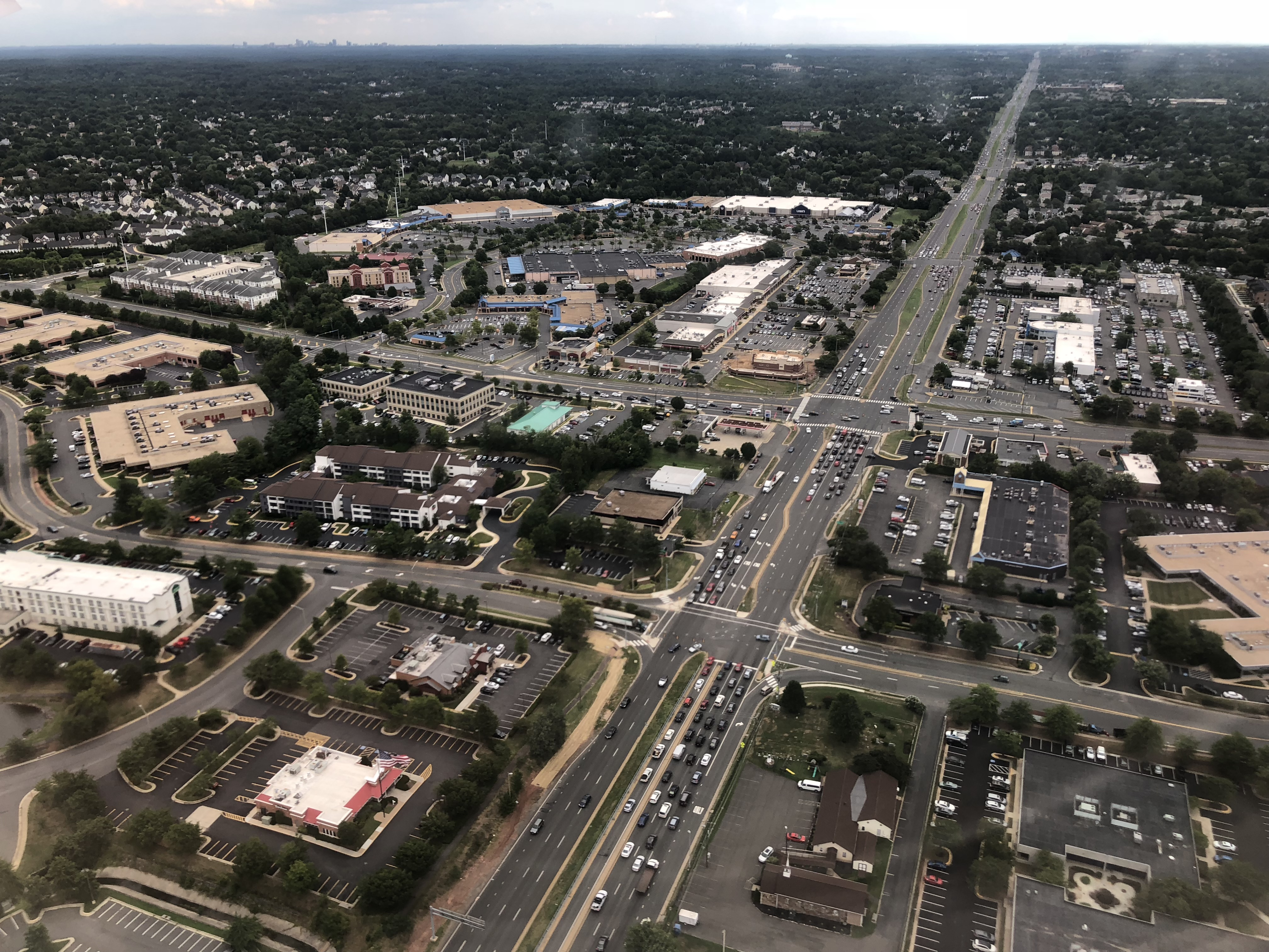 View east along U.S. Route 50 (Lee Jackson Memorial Highway) at its intersections with Sullyfield Circle, Centerview Drive, Centreville and Walney Roads in Chantilly, Fairfax County, Virginia, viewed from an airplane heading for Washington Dulles International Airport